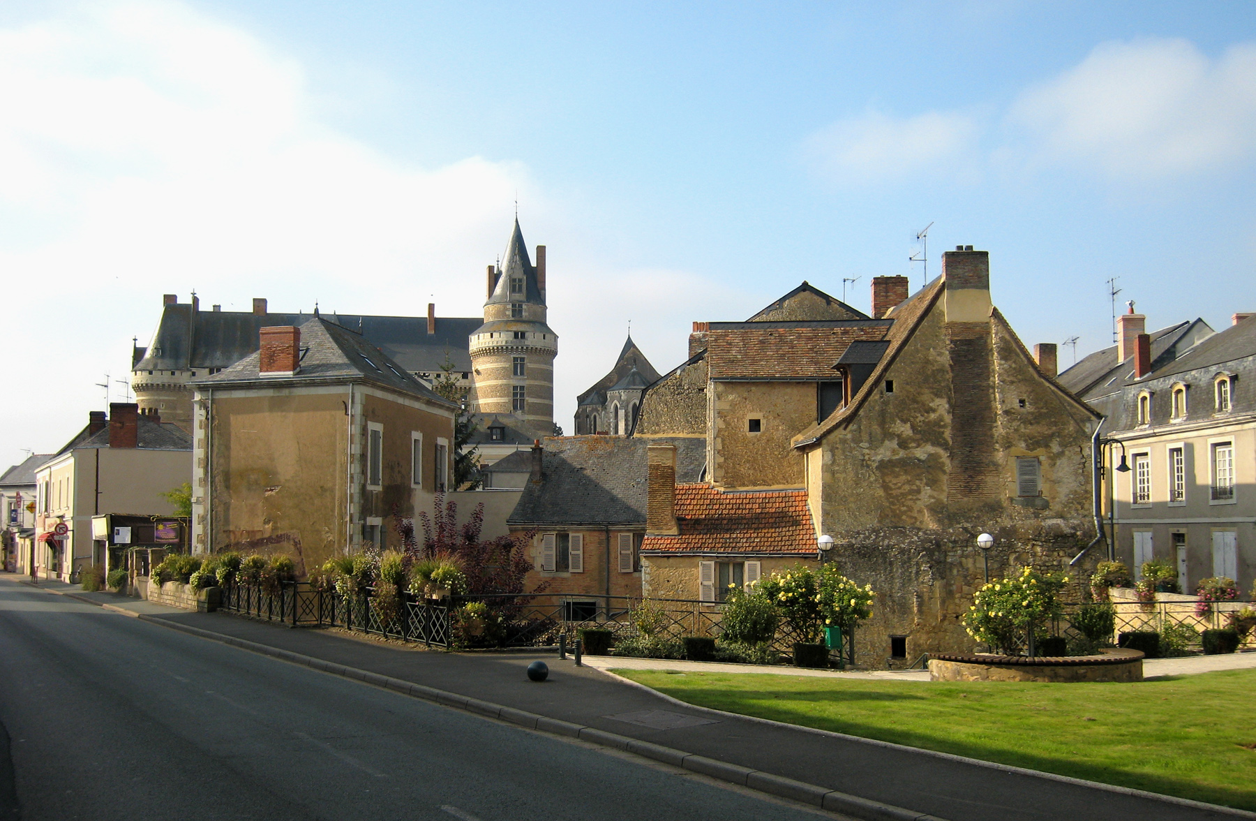 Village of Durtal, located in the county of Maine-et-Loire/France; the castle overlooking the lower town.